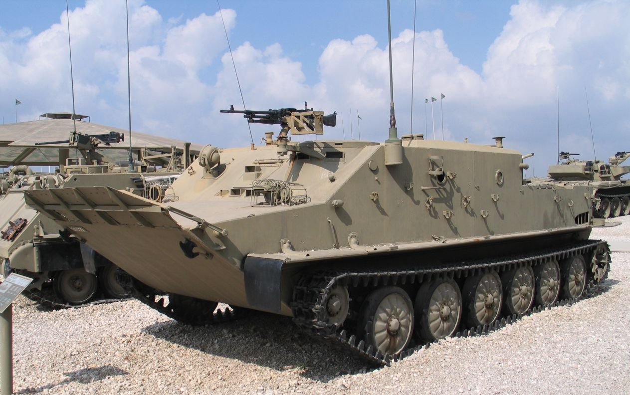 Description: BTR-50PK APC in Yad la-Shiryon Museum, Israel. 2005. Source: Photo by me, User:Bukvoed